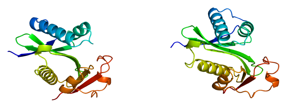 Structure of the PCAF protein. Based on PyMOL rendering of PDB 1cm0.